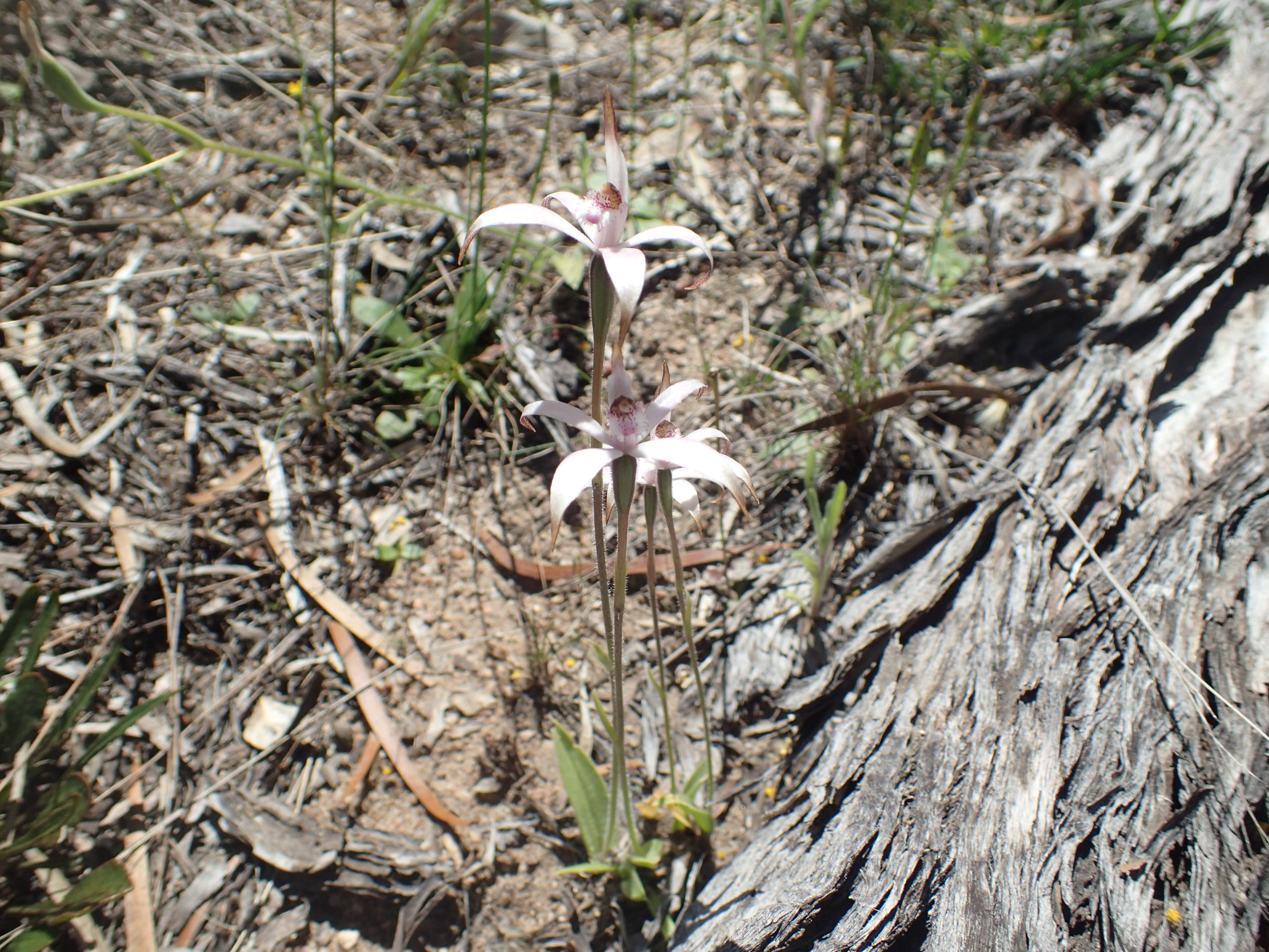 Caladenia hirta subsp. rosea growing in Kalgarin Hill Conservation Reserve near Hyden, Western Australia